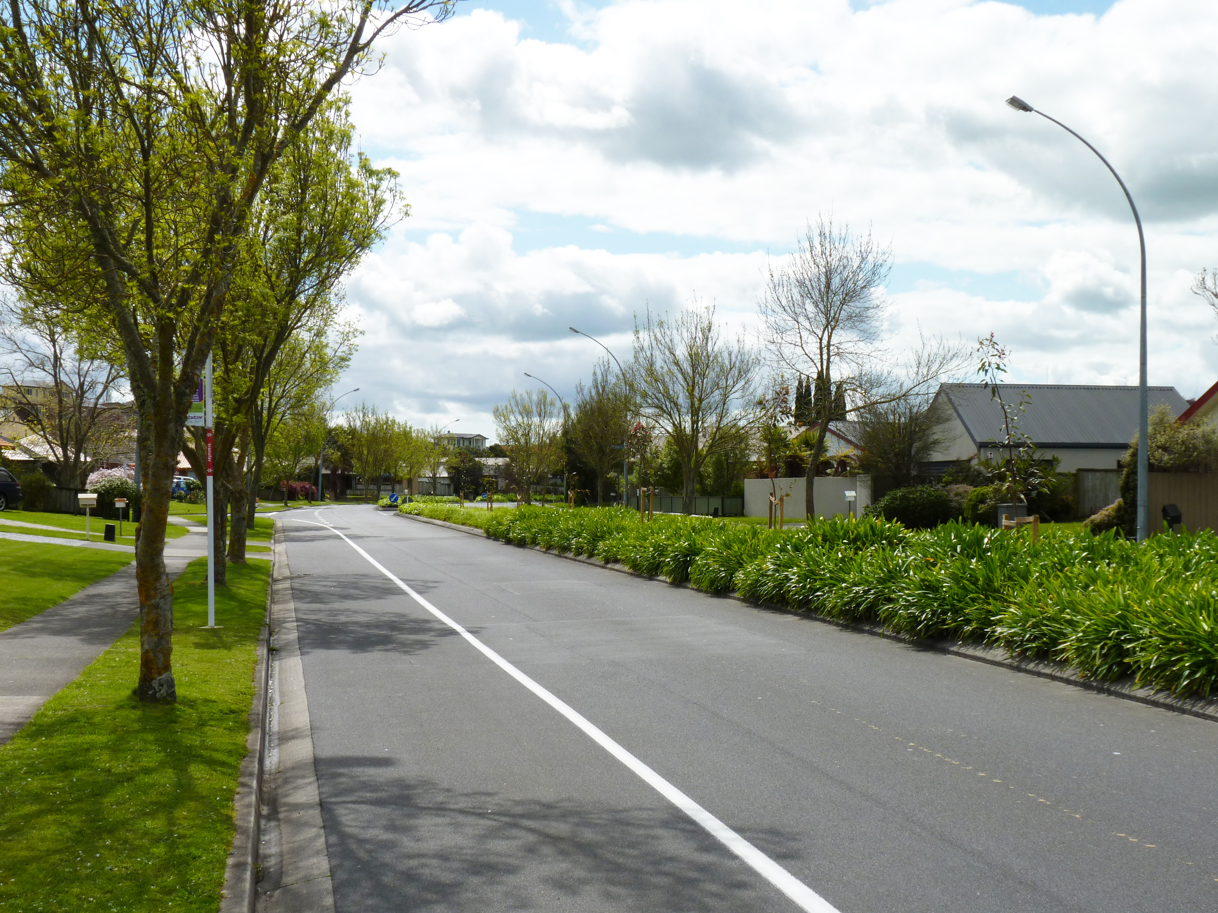 Flagstaff, northeast Hamilton.